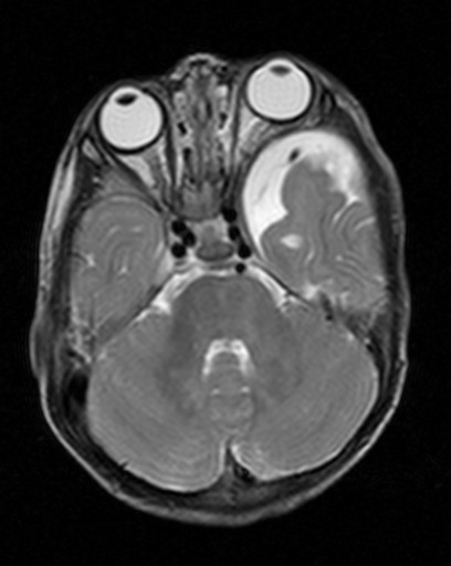 This image is part of a series which can be scrolled interactively with the mousewheel or mouse dragging. This is done by using Template:Imagestack. The series is found in the category Neurofibromatosis type I - orbital dysplasia - MRI - case 001. Orbitadysplasie bei Neurofibromatose Typ 1. MRT - T2w axial